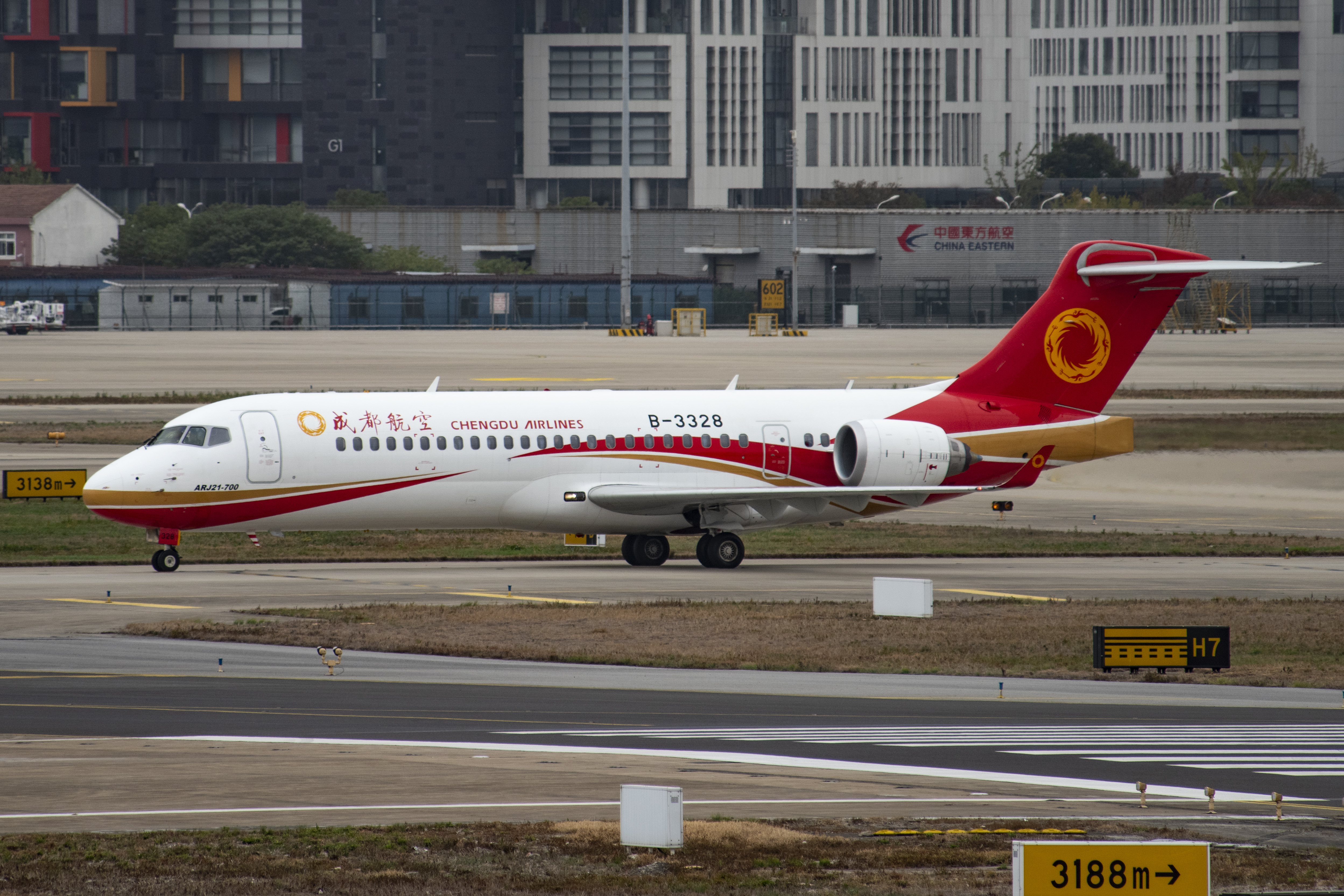 Jinxiu 6671 from Yueyang. First time to encounter this little fellow, ARJ21!